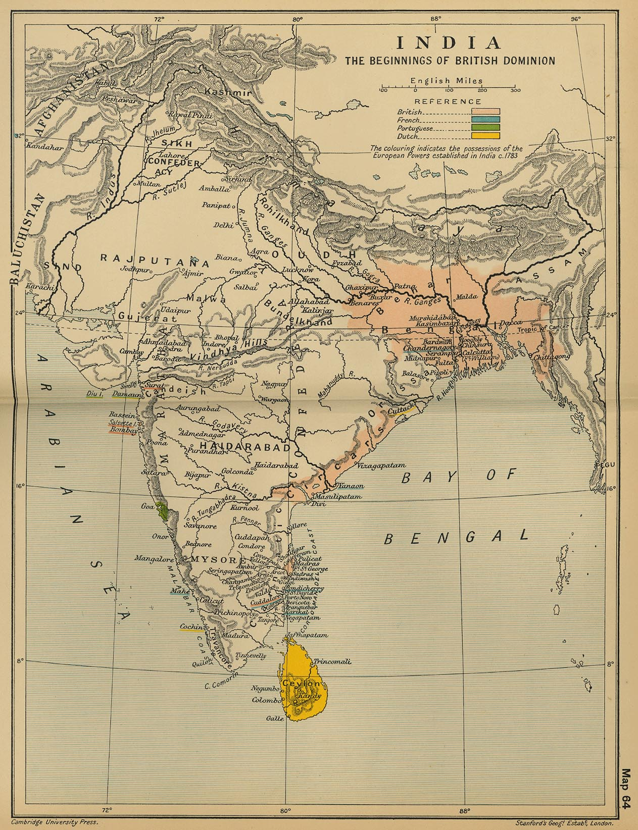 Map showing British, French, Portuguese and Dutch possessions in India in 1783.